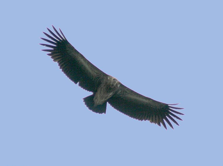 Himalayan Griffon Gyps himalayensis in Kullu District of Himachal Pradesh, India. Largest of the Gyps. with a size of about 120 cm., it is always a delight to watch it during Himalayan treks. Seen in the Himalayas from about 3000 ft. to say 13000 ft. THIS BIRD HAD ALWAYS FASCINATED THE TREKKERS ON THE WAY OVER THE YEARS, AS THEY SAW HIM GLIDE MAJESTICALLY IN THE VALLEYS OF HIMALAYAS FOR LONG PERIODS WITH GOOD VIEWS. IF WE REALLY CALL HIM THE KING OF HIMALAYAS, IT SHALL NOT BE INAPPROPRIATE.